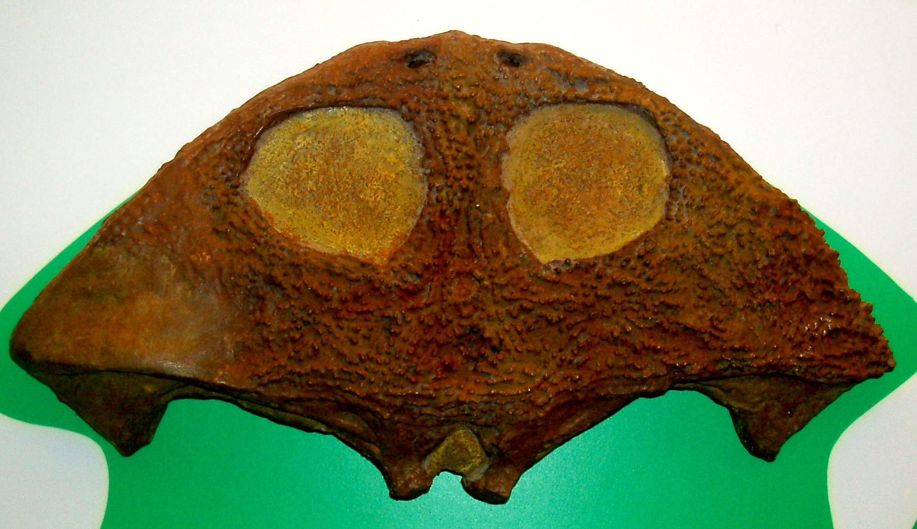 Fossil of Gerrothorax, an extinct amphibian